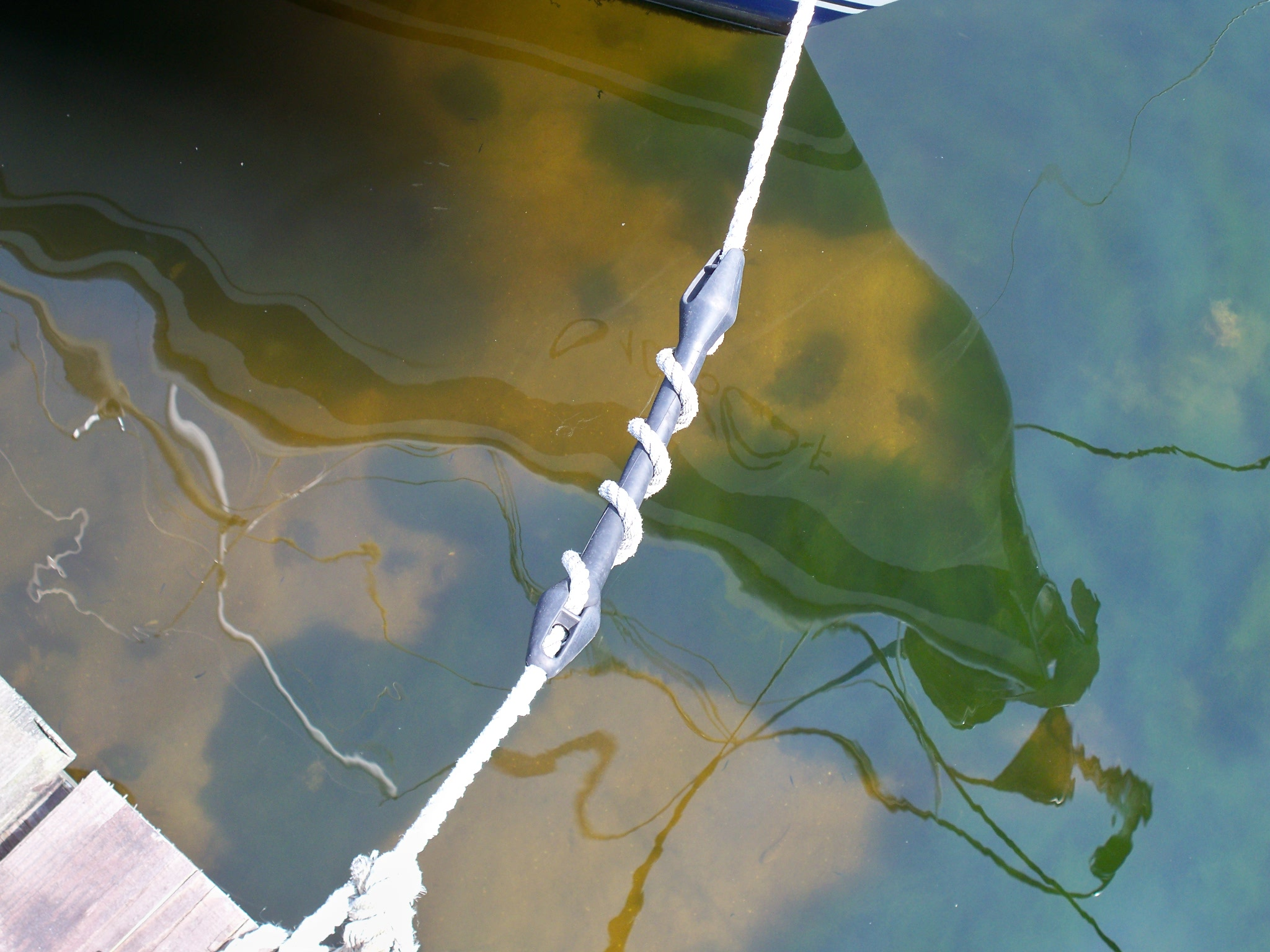 Mooring compensator